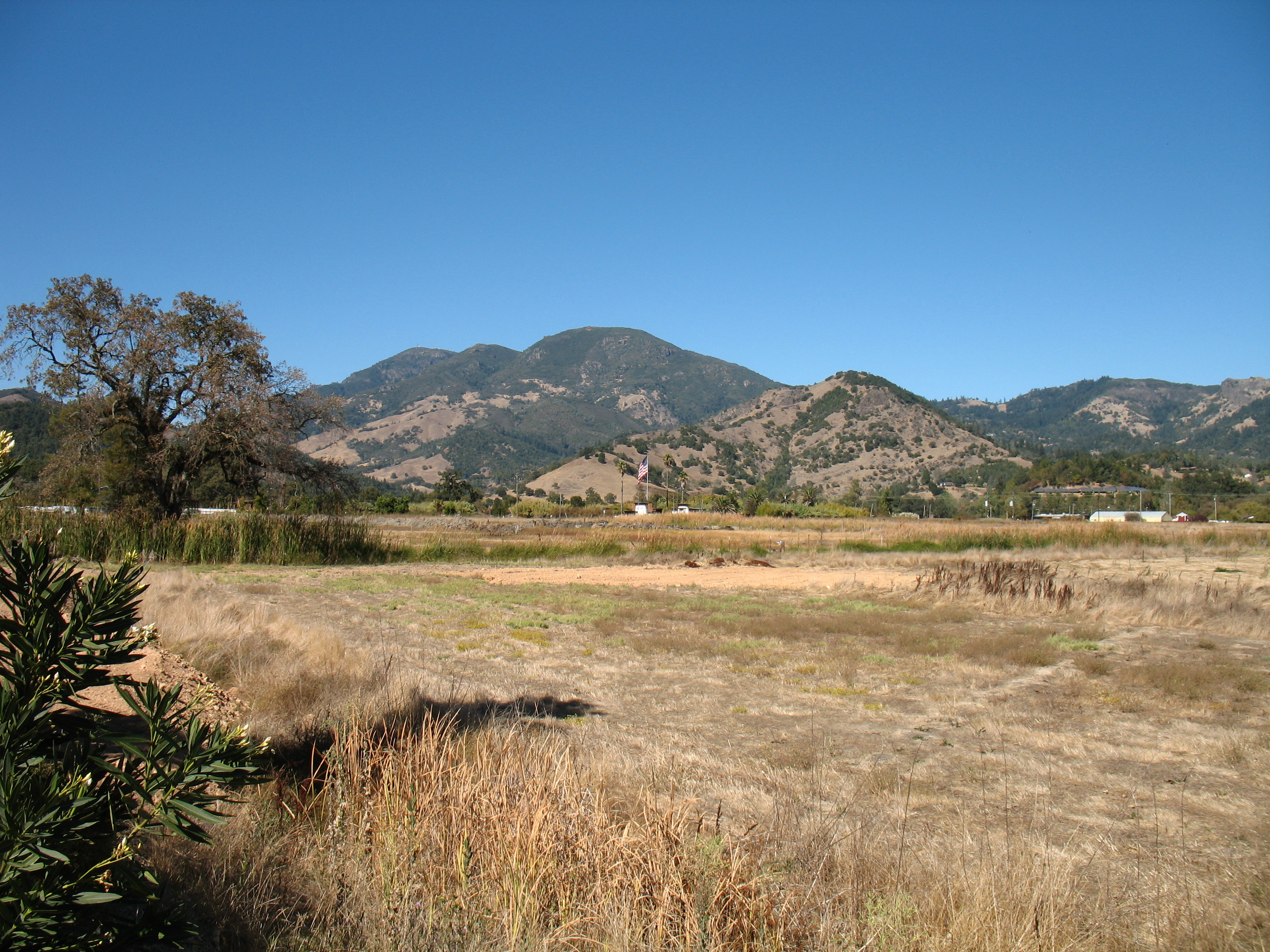 Mount Saint Helena — seen from Calistoga, Sonoma County, California. A peak in the Mayacamas Mountains, of the Northern Inner California Coast Ranges System. Flagpole is at entrance to Calistoga's "Old Faithful Geyser".